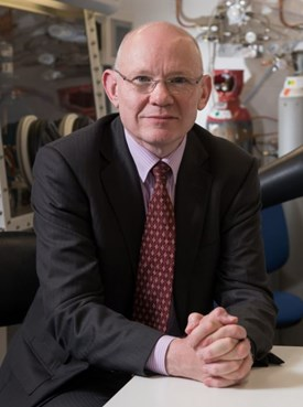 Prof. Peter Bruce in his labs